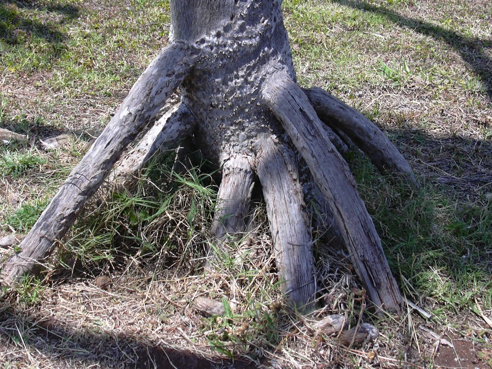 Pandanus tectorius (prop roots). Location: Maui, State nursery Kahului